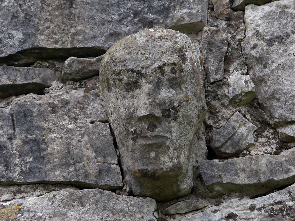 A Romanesque-style carved face in the wall of Temple Cronan